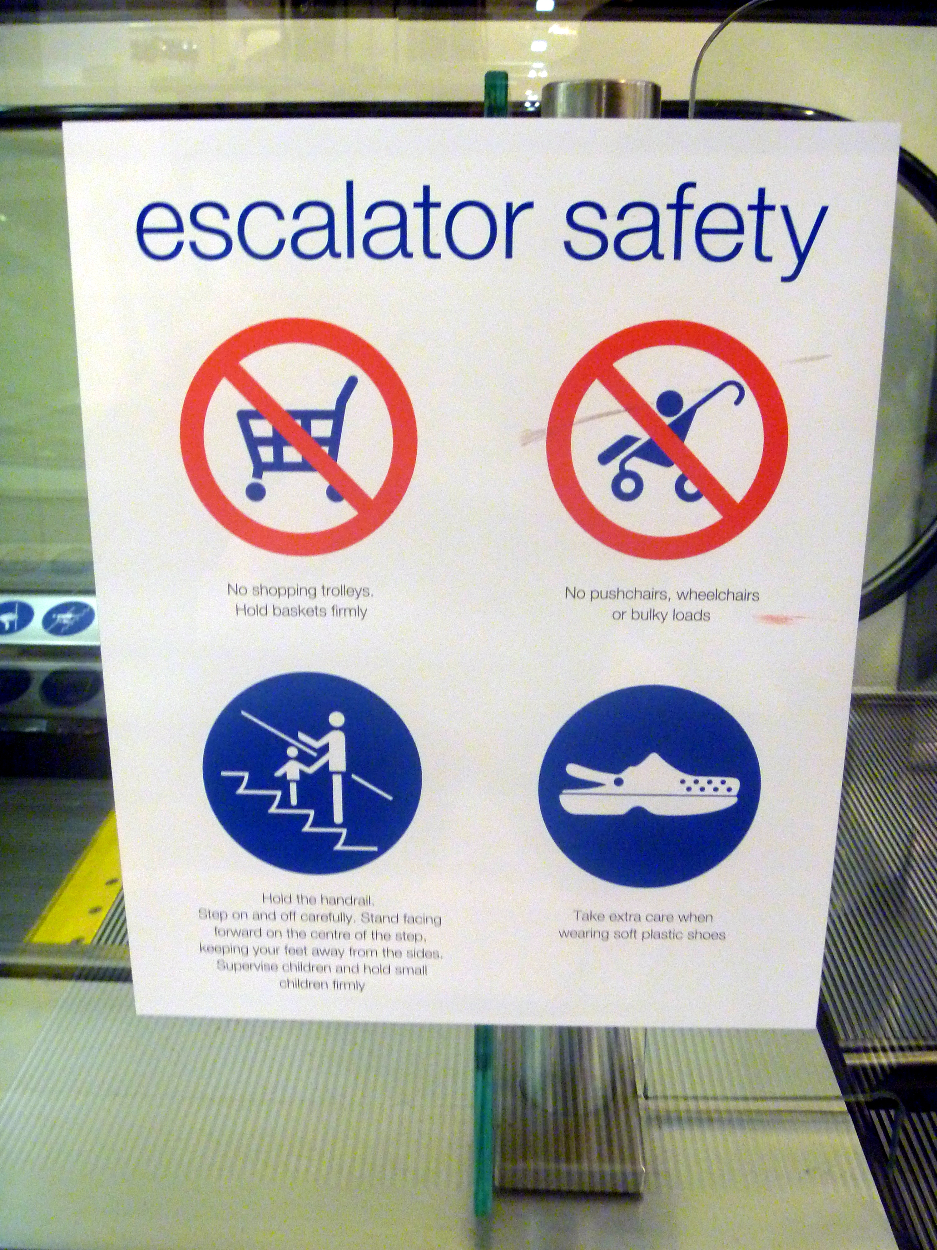 Escalator safety sign warns about Crocs. Taken at Marks & Spencer's Finsbury Pavement branch 70 Finsbury Pavement, Moorgate, London, EC2A 1SA, United Kingdom